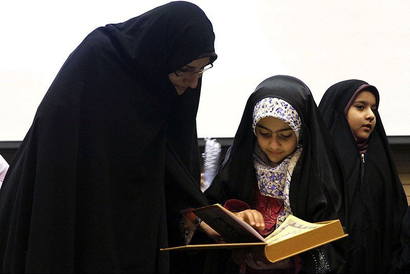 Armita Rezaeinejad worship celebration with a gift from Ali Khamenei in Mashhad. Armita is daughter of Dariush Rezaeinejad, the Iranian nuclear scientist assassinated by terrorists.